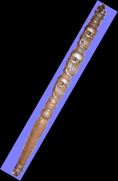 Khatvangam